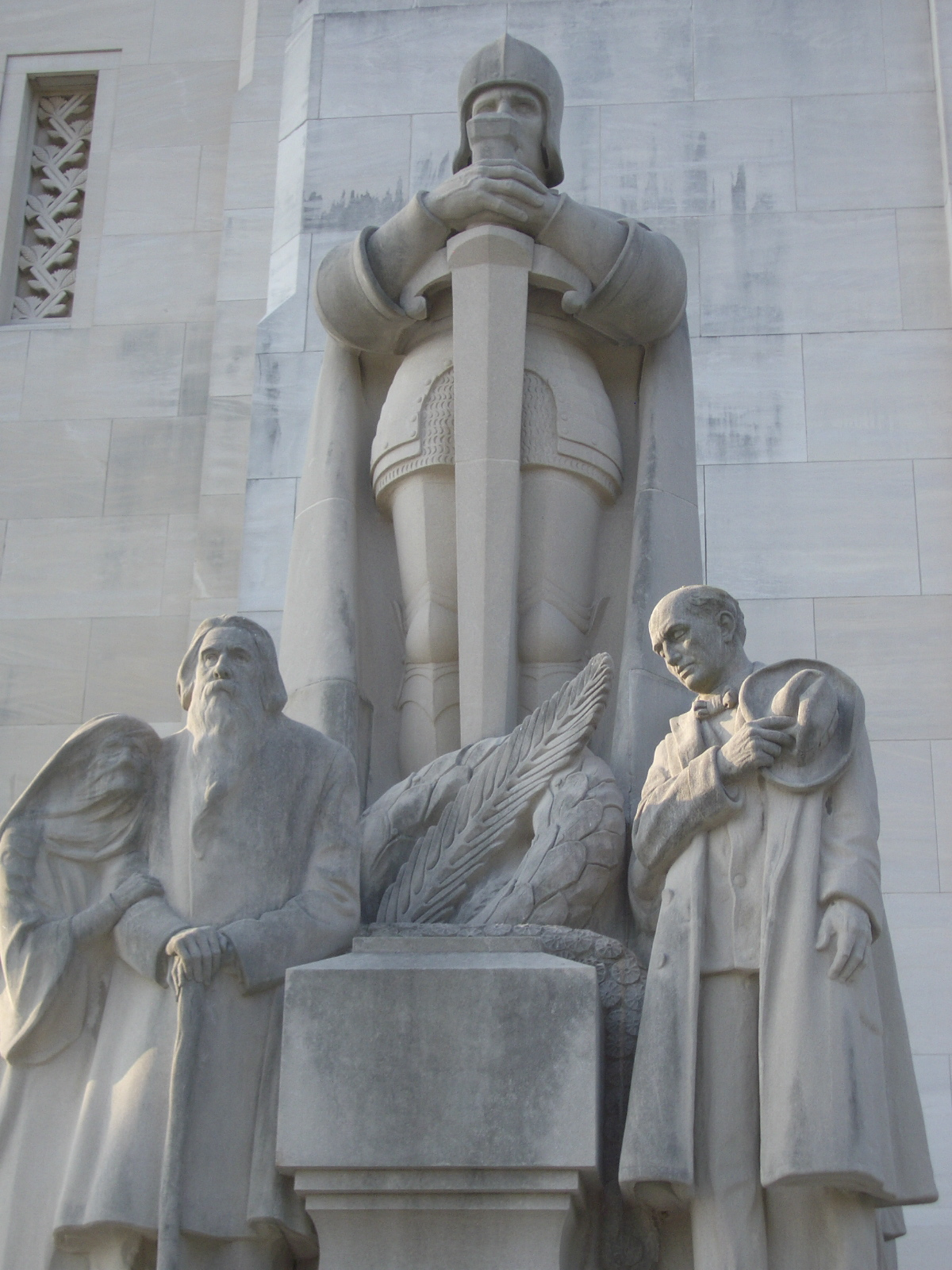 Sculptured figures on the Louisiana State Capitol building, Baton Rouge.